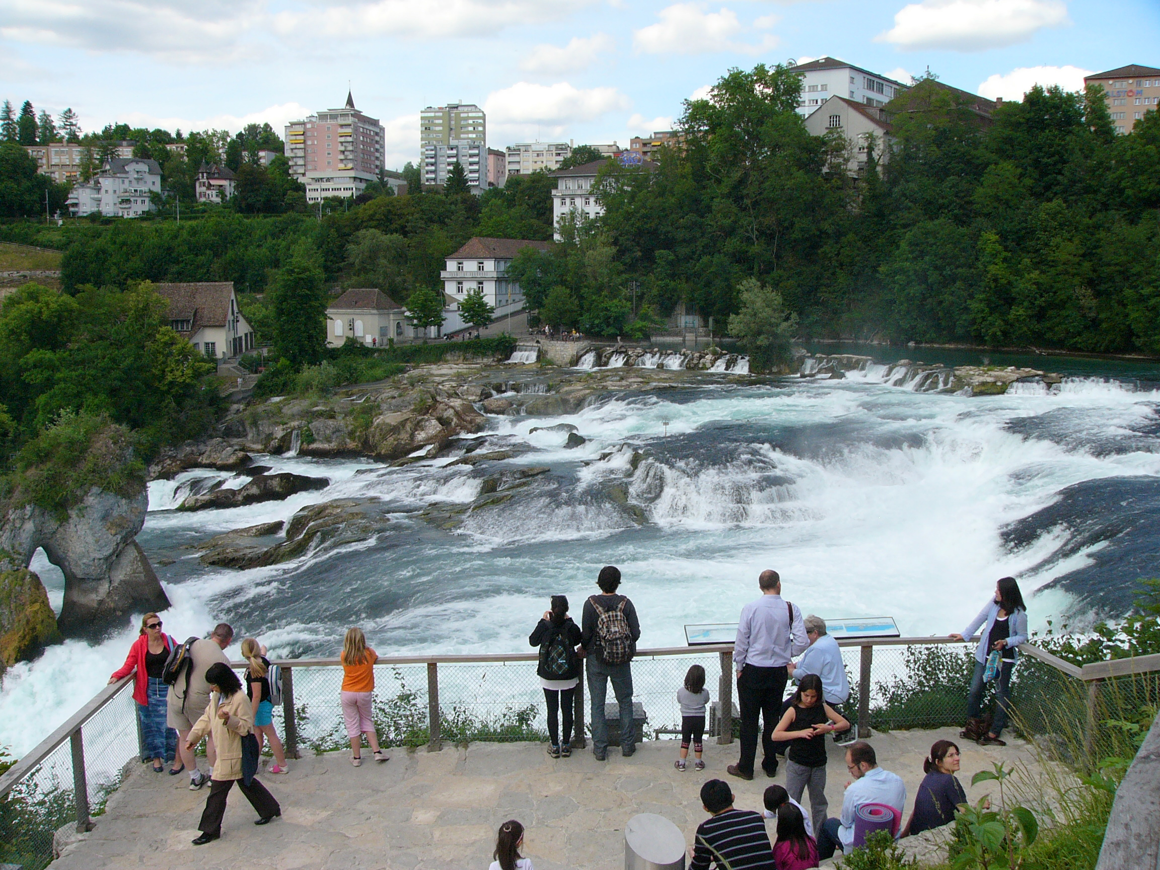 View to the visitors platform and Rheinfall at castle Laufen, Laufen-Uhwiesen, Canton of Zürich, Switzerland